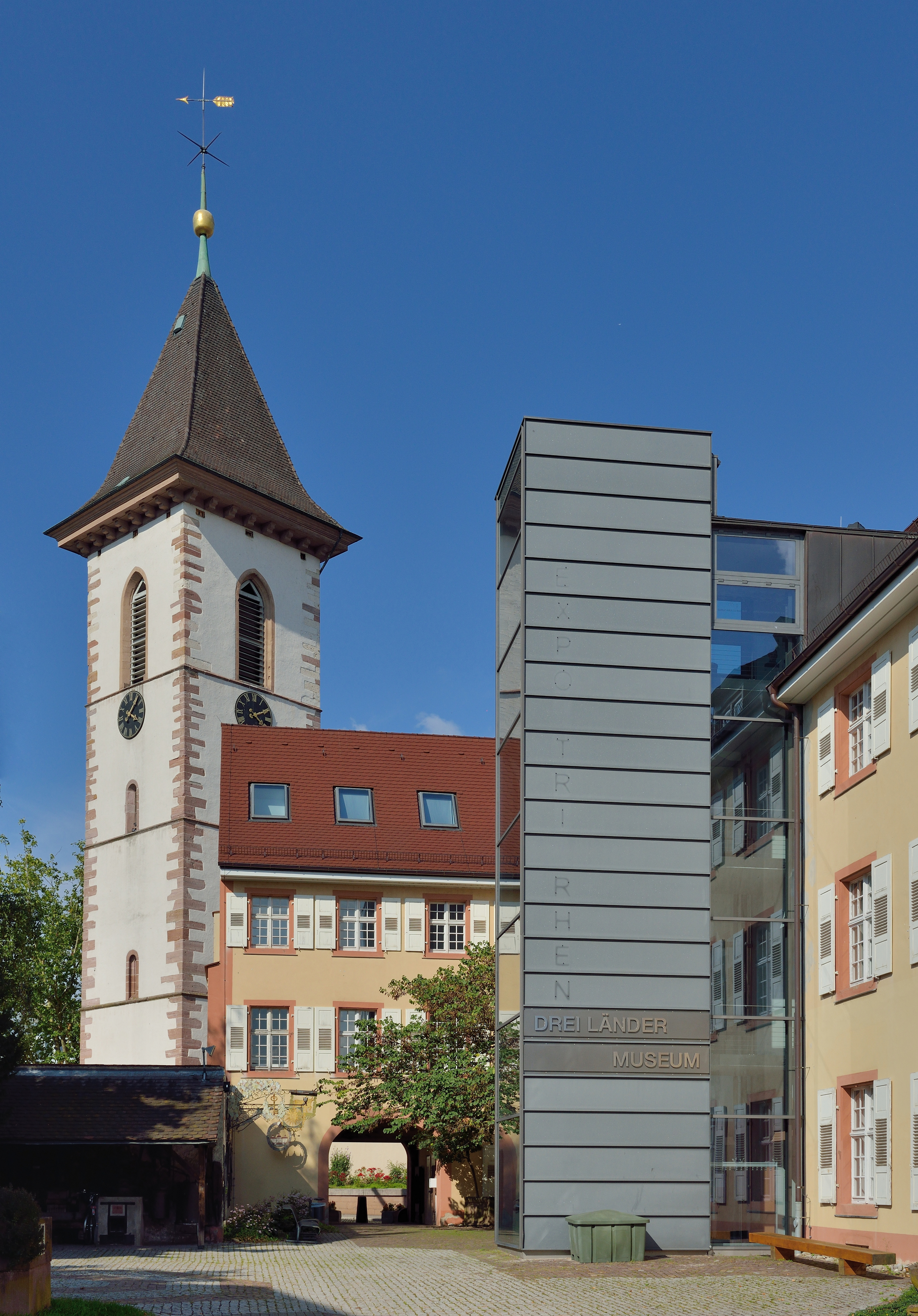 Lörrach: Museum of the three countries (Dreiländermuseum)